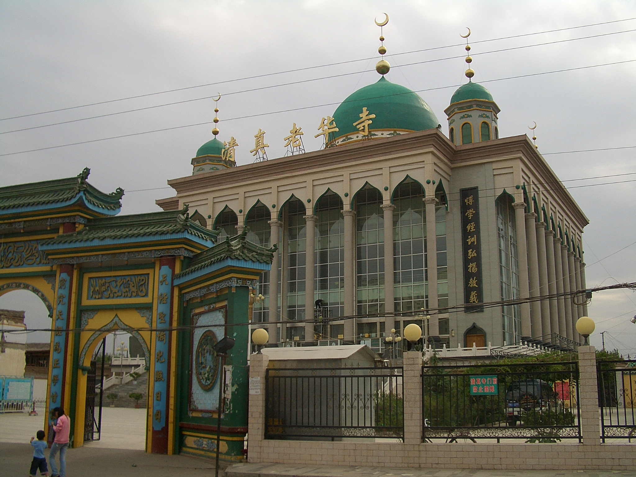 Laohua Mosque in Xin Xi Lu (New Western Street) in Linxia City, west of downtown. This is probably the heart of the old Muslim neighborhood, where the Hui people had to reside after they were prohibited to live within the city wall in 1873. There are 4 large mosques - Lao Hua, Xin Hua, Tie Jia, and Qianheyan - in that street.